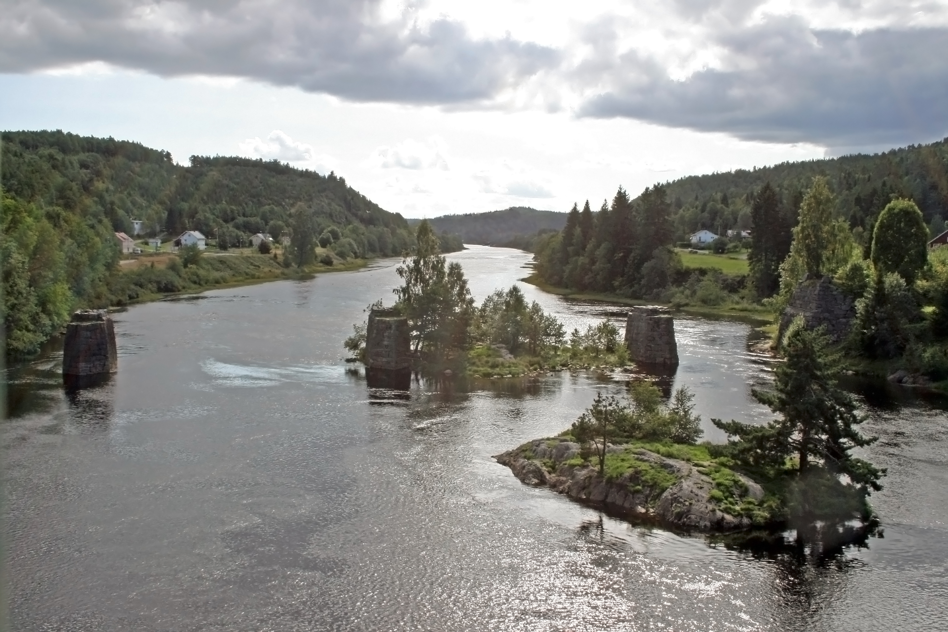 Nidelva river by Blakstad in Froland, Aust-Agder county.